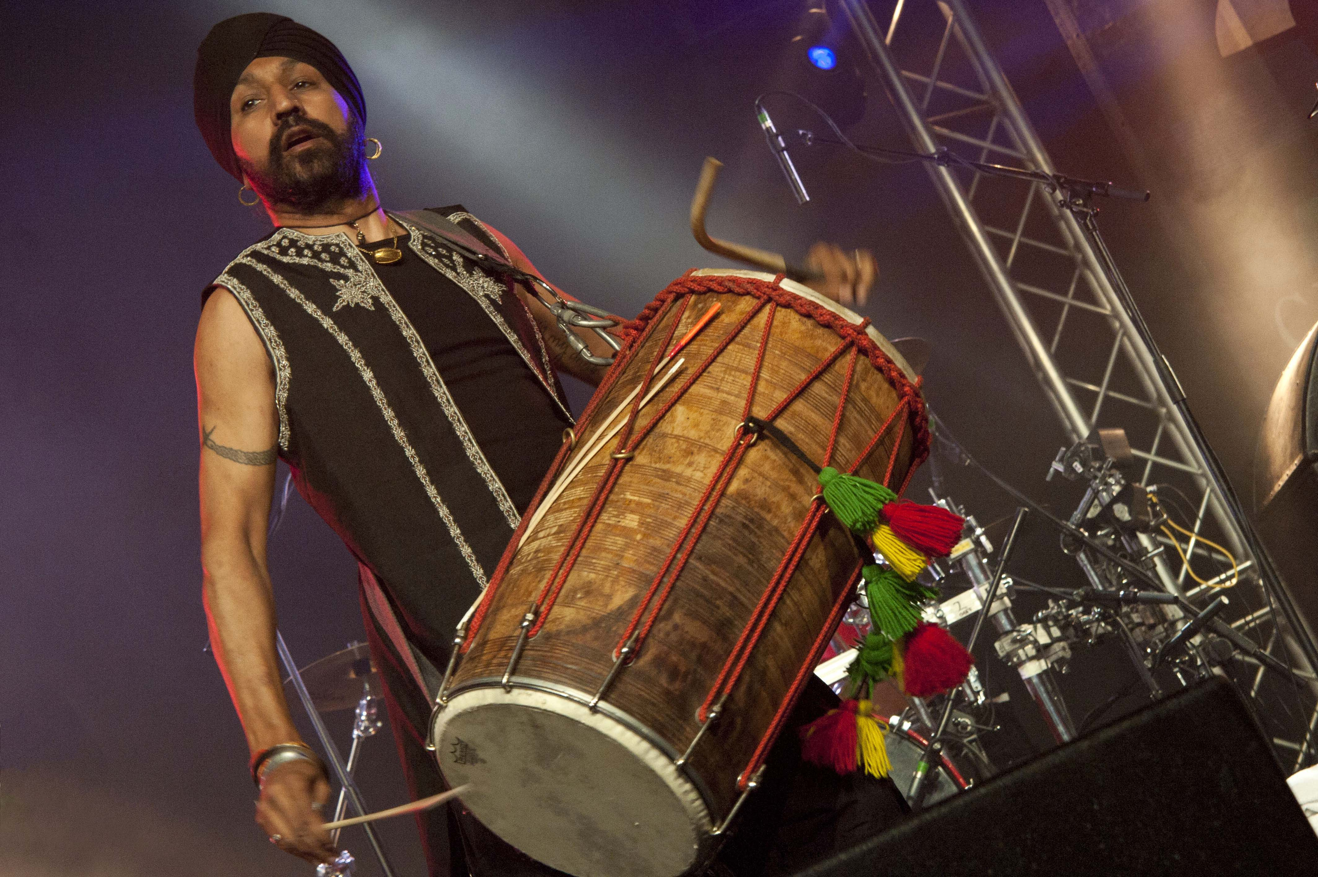 Musicians Cambridge Festivals 2001-2014